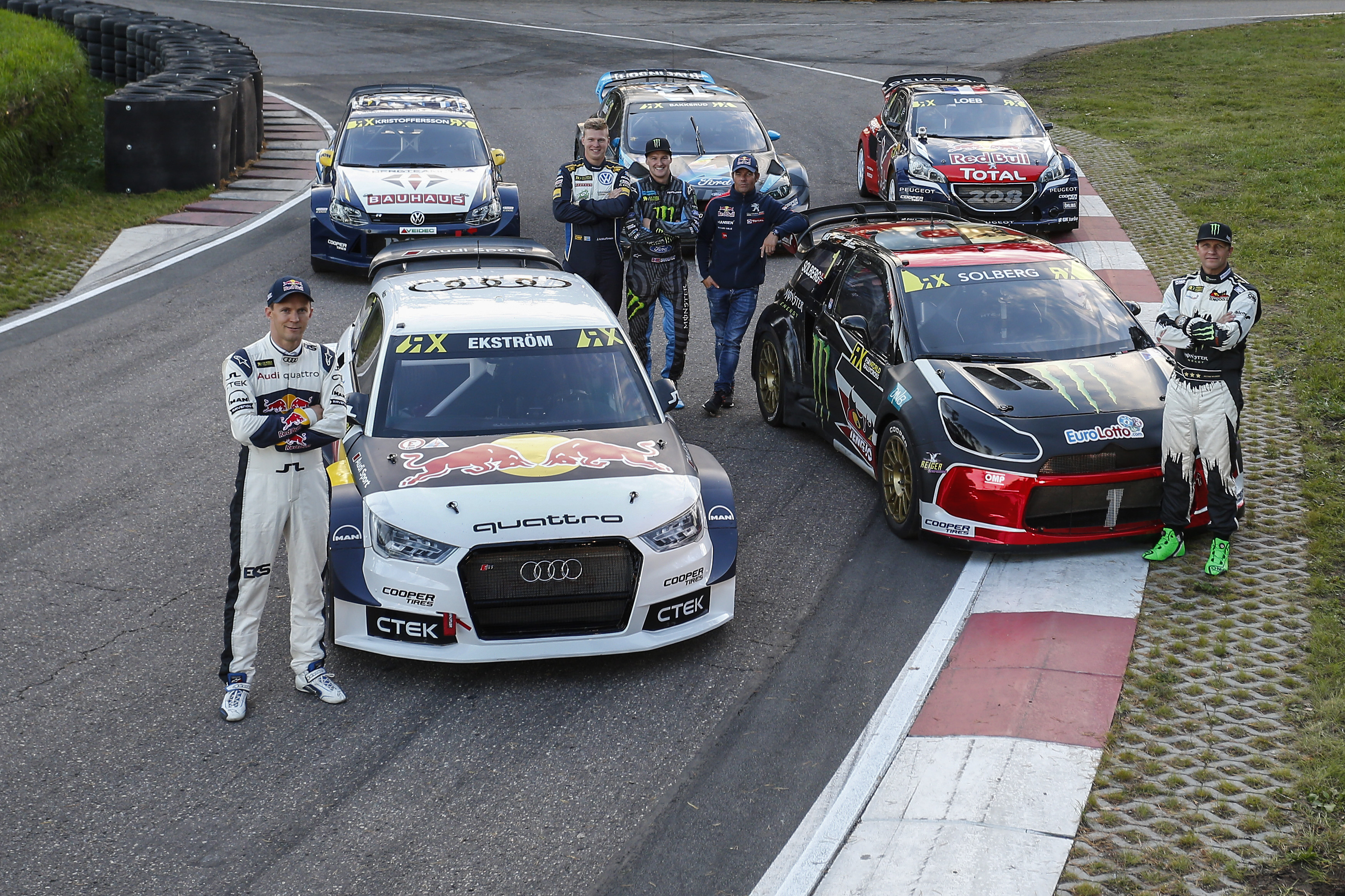 2016 FIA World RX Rallycross Championship / Round 10, Riga, Latvia, October 1-2 2016 // Worldwide Copyright:Tony Welam/EKS/McKlein